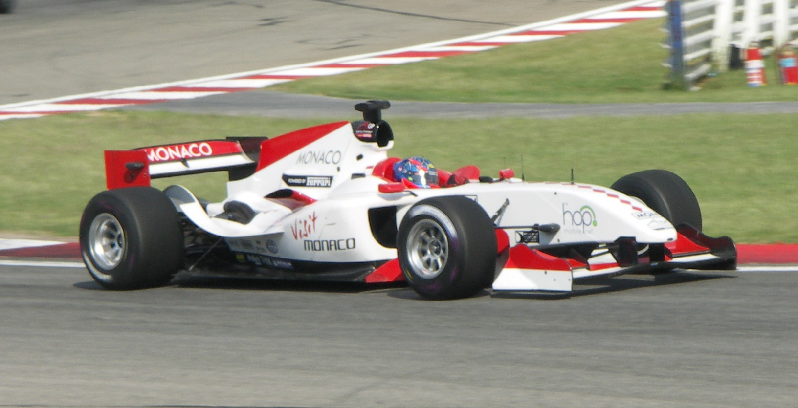 A1 Team Australia at Kyalami, Gauteng, South Africa during the 2008-09 A1 Grand Prix season